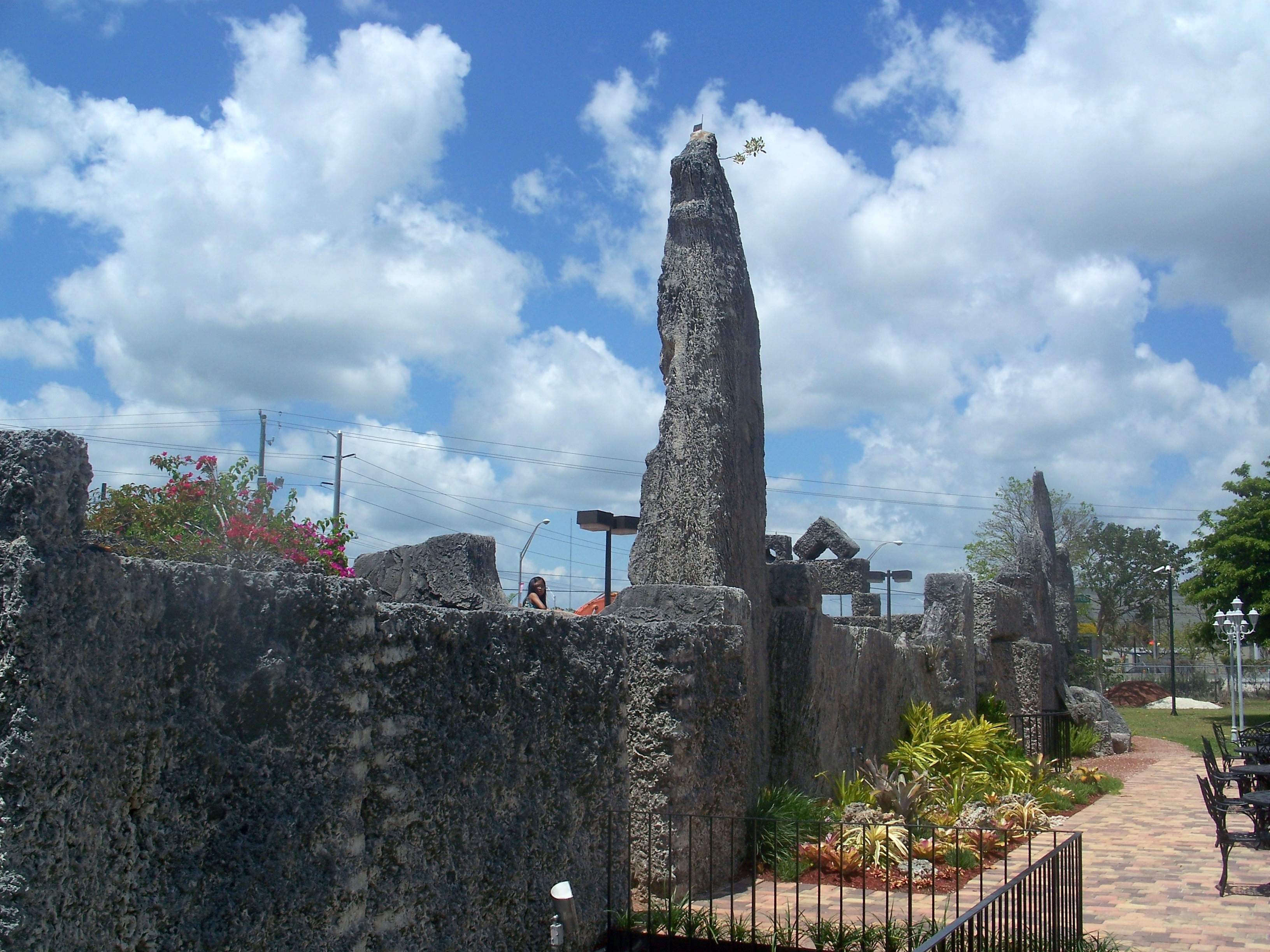 Homestead, Florida: Coral Castle